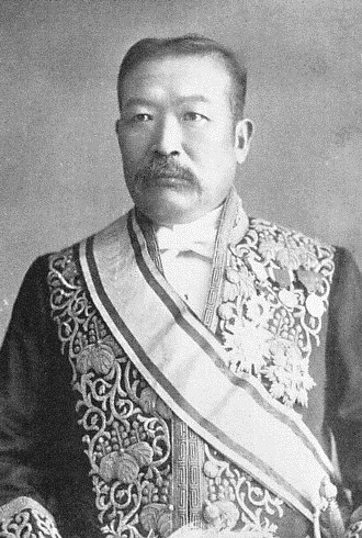 Kunitake Watanabe